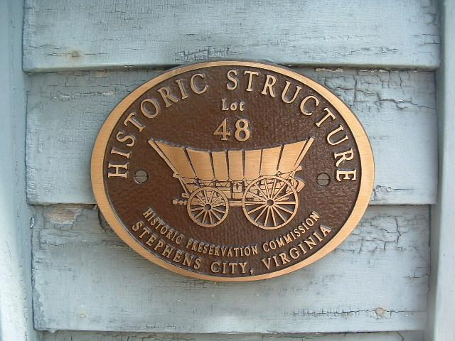 Historic Preservation Commission plaque on a Building in the Newtown-Stephensburg Historic District in Stephens City, Virginia.